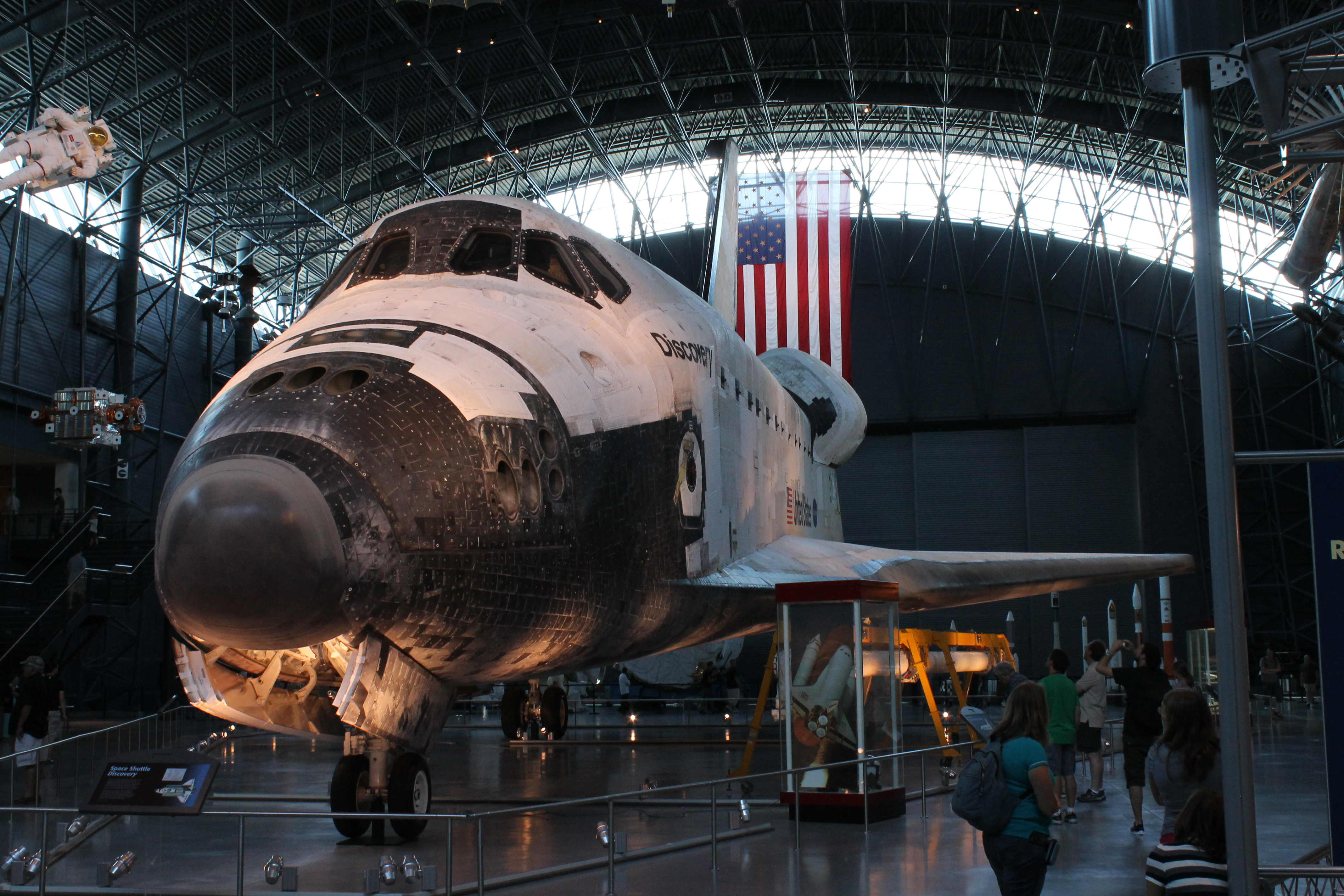 The Space Shuttle Discovery on display at the Steven F. Udvar-Hazy Center in Virgina, USA on 13 August 2012.